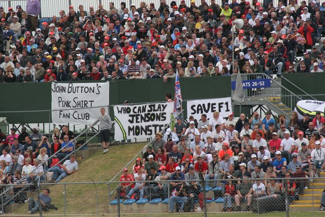 Fans and Protesters The sheet with "Save F1" continues to say "Mosley Out!"